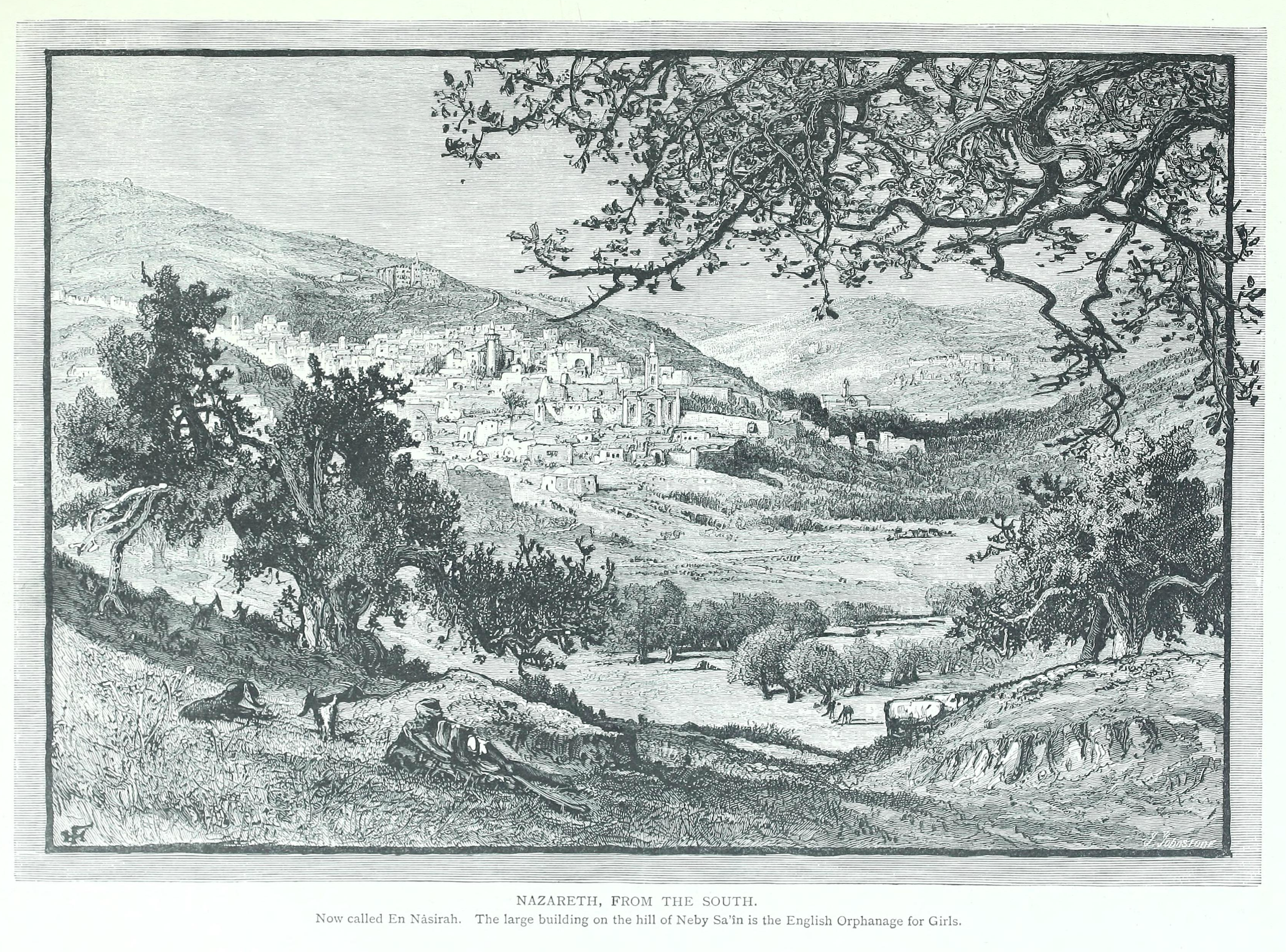 Caption: nazareth, from the south. Now called En Nâsirah. The large building on the hill of Neby Sa'in is the English Orphanage for Girls.